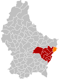 Own edit of Kanton GrevenmacherLocatie.png